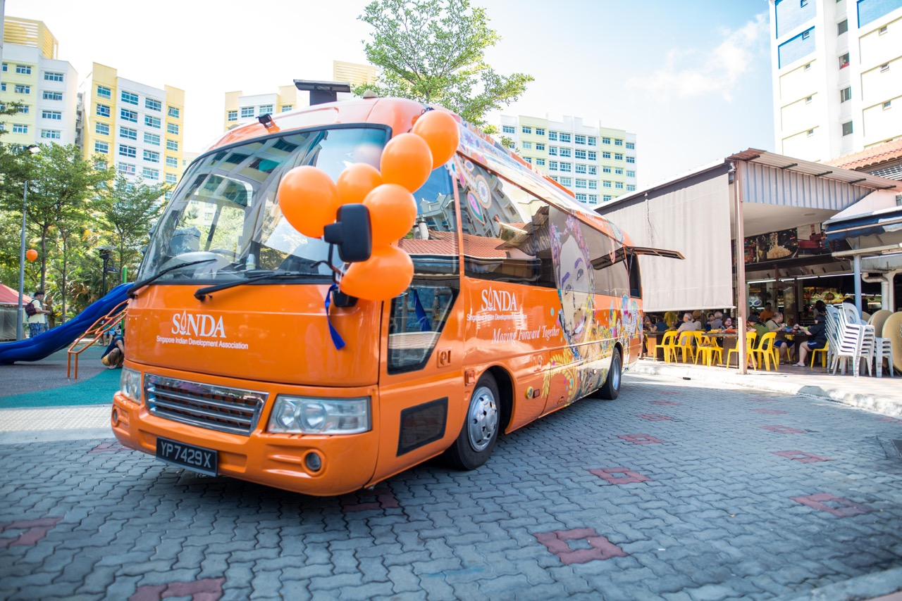 SINDA Bus